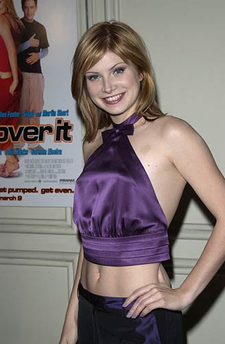 Colleen Ann Fitzpatrick, aka Vitamin C, at the premiere of Get Over It in 2001.